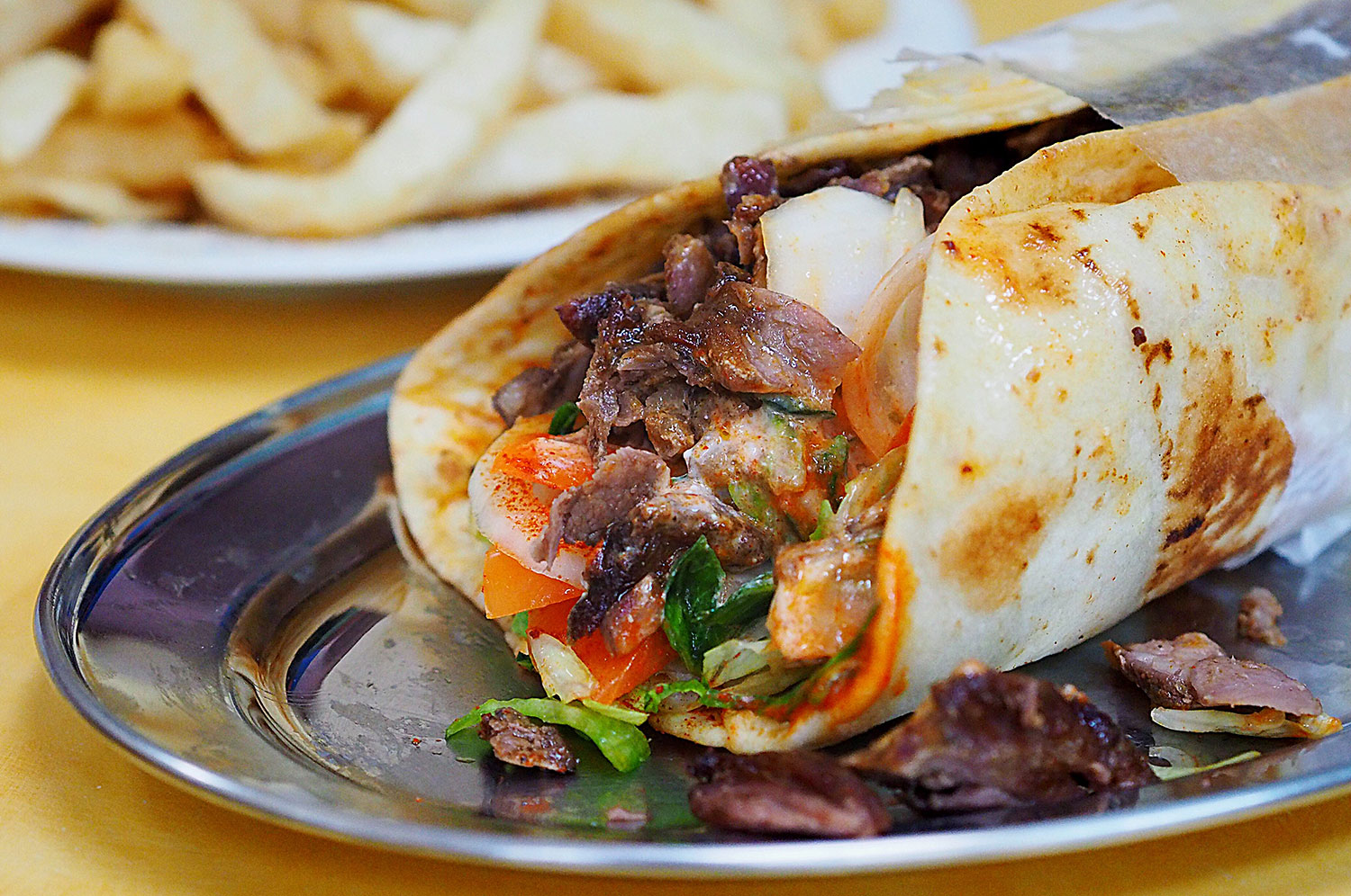 Lamb Gyros, The Yeeros Shop: Sydney Food Blog Review